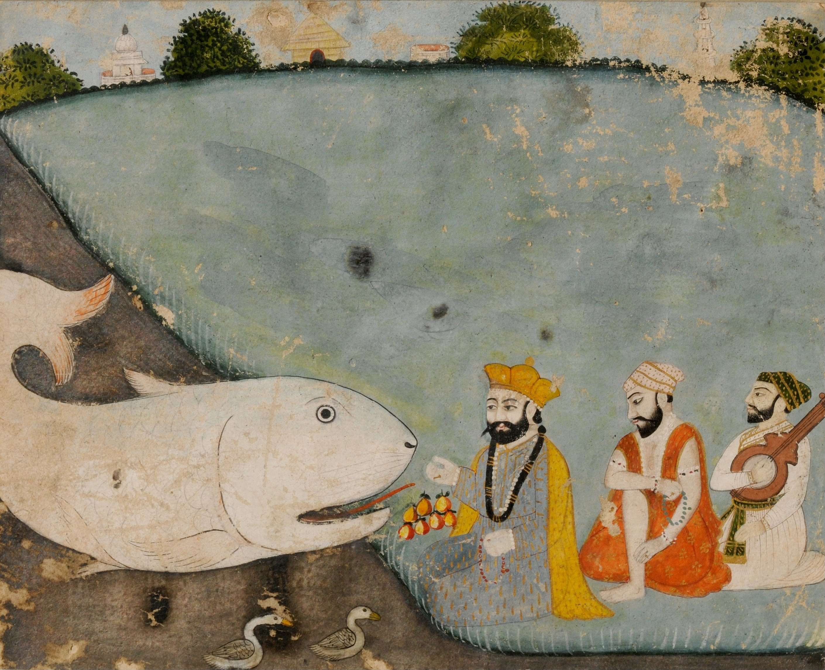 Guru Nanak with Bala, Mardana and the great fish (Vishnu in Matsyavatara) - Unknown, Sikh School - Google Cultural Institute. Miniature Painting, Sikh School. Natural pigment on paper Punjab, 16.8 X 19.9 cm.